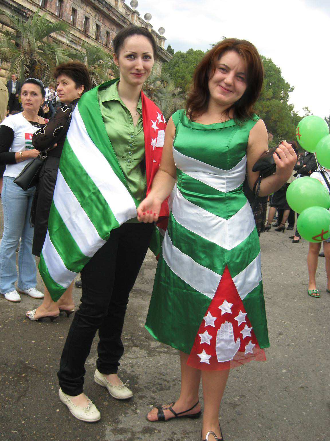 Apsua Ladies in Flag Clothes